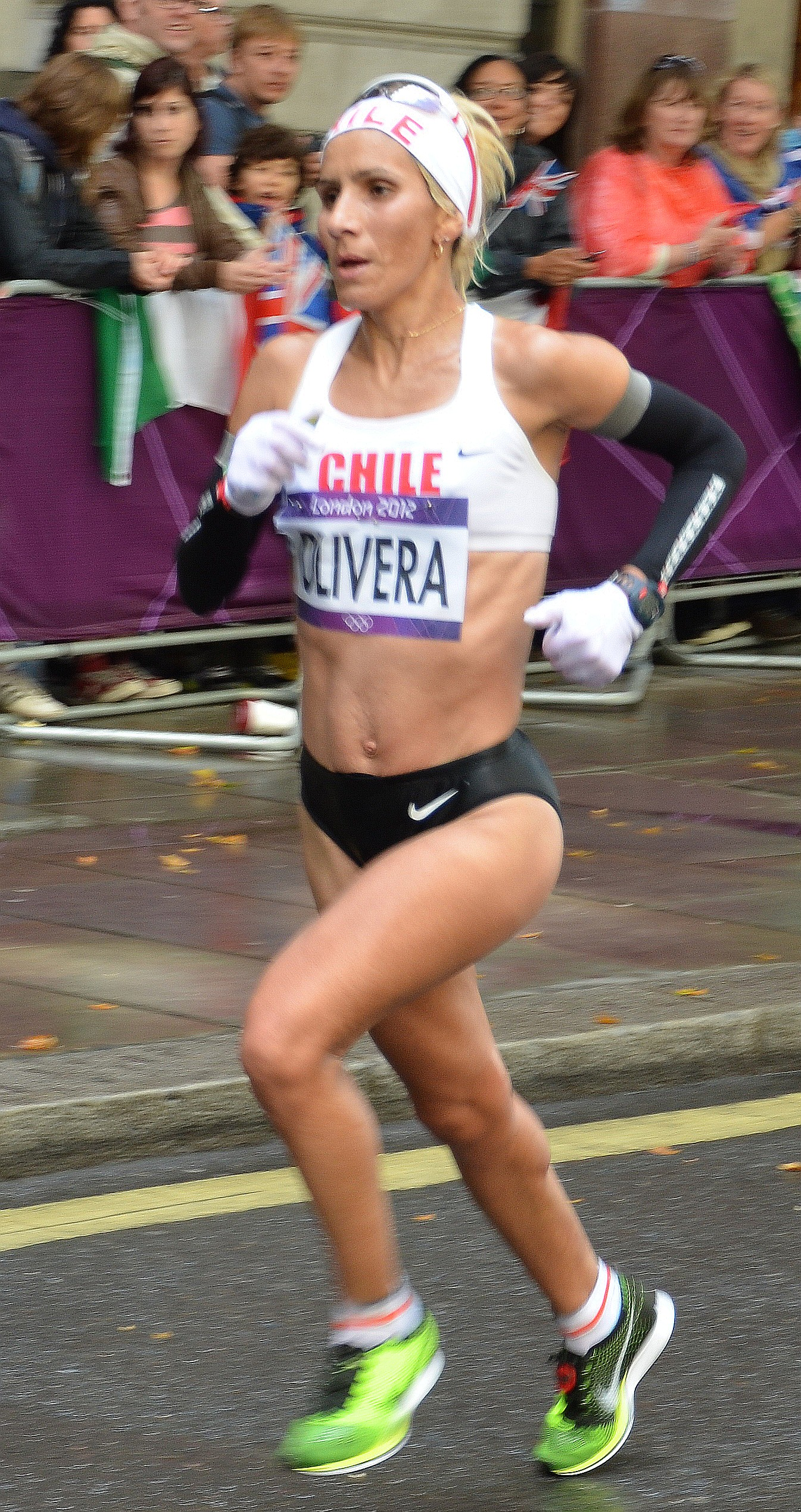 Erika Olivera (Chile) in the marathon (w) at the Olympic Games 2012